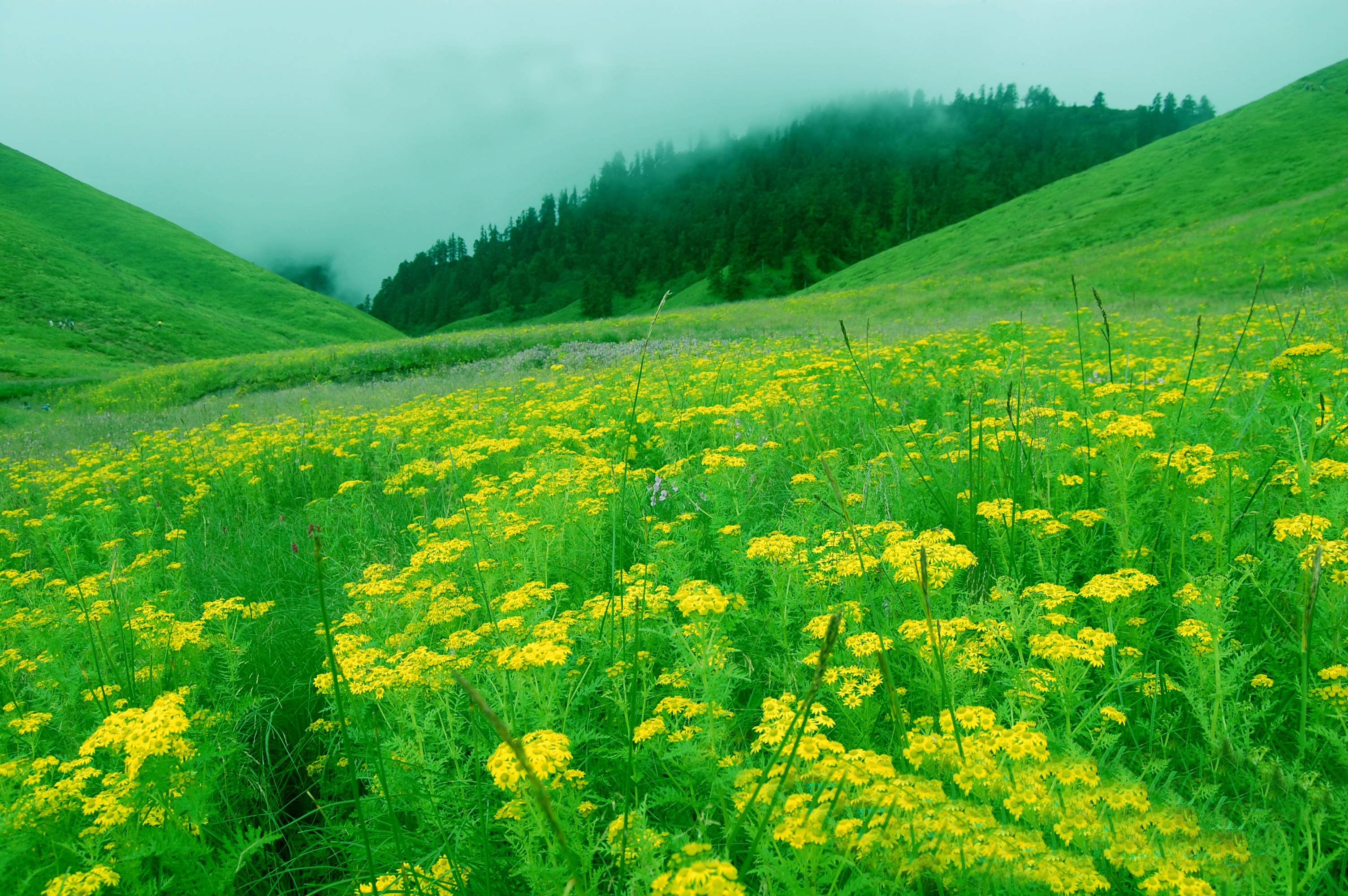 Jalaja is a hill, 3100 meter in Rolpa. Here are some temples in the high mountain to worship of Baraha Devta. नेपाली: जलजला पहाड रोल्पाको एक उच्च पहाड हो । यो ३११ मिटरभन्दा अग्लो छ । यहाँ वर्षोनी पूजाआजा गरिन्छ । यहा रहेका बराह मन्दिरहरुको पूजाआजा गरेर सन्तान माग्ने र सुख शान्ति प्राप्त गर्ने अभिलाषा लिइन्छ । यहा रहेका हरेक मन्दिर र सुन्दर पहाडले यहाको हराभरा राखेका छन् । जडिबुटी, जनाबर र काठपाठले यहाँको गरिमालाई उच्च बनाएका छन् । तस्बिर ः काशीराम डाँगी, रोल्पा ।